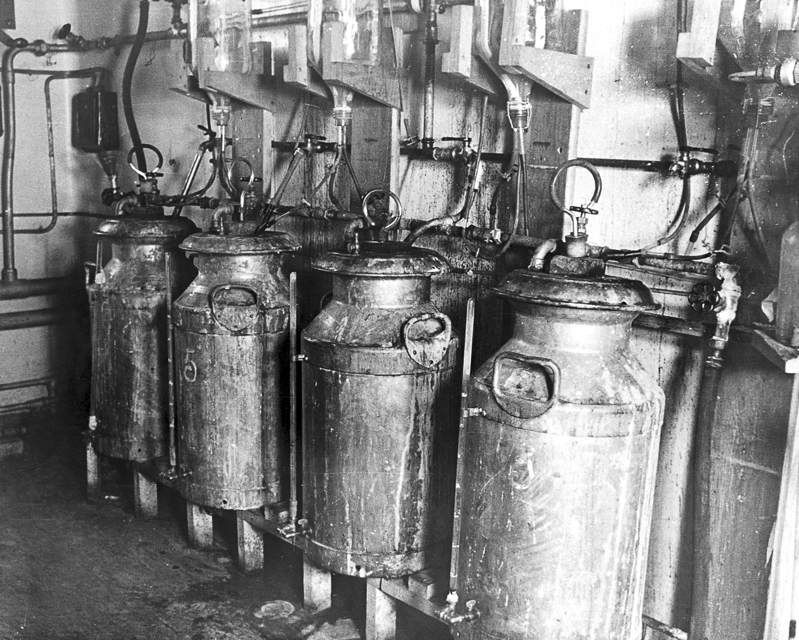 Equipment used for making early forms of penicillin; anon., n.d. milk-churns Archives & Manuscripts Keywords: apparatus: penicillin; chain, sir ernst boris {1906-1; cmac; cmac: pp/ebc/ b.18; Ernst Boris Chain